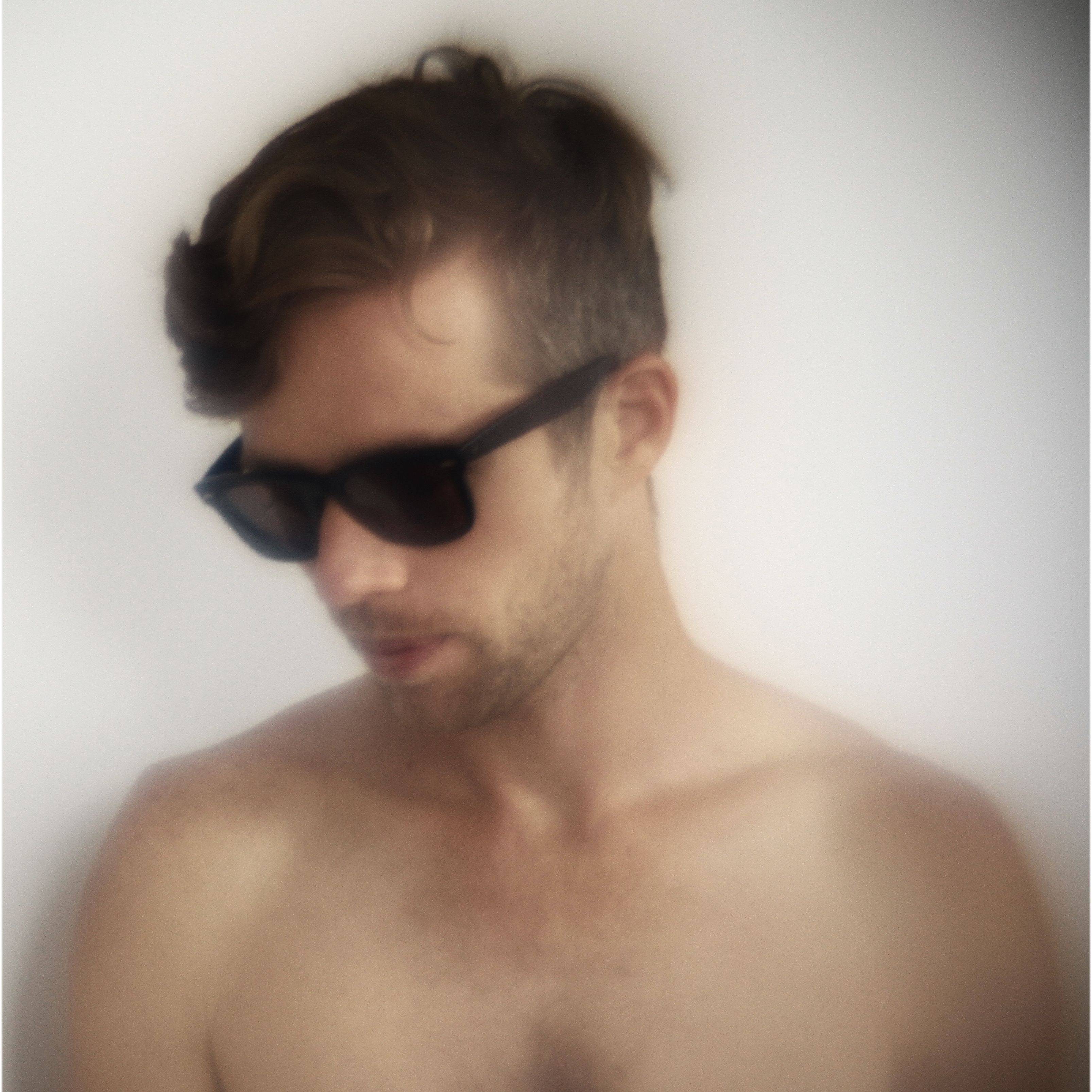 Blue Foundation, Blue Foundation's brainchild Tobias Wilner 2011. Taken in his NYC apartment by James Carver License on Flickr (2012-02-20): CC-BY-2.0 Flickr tags: Blue, Foundation, Tobias, Wilner, James, Carver